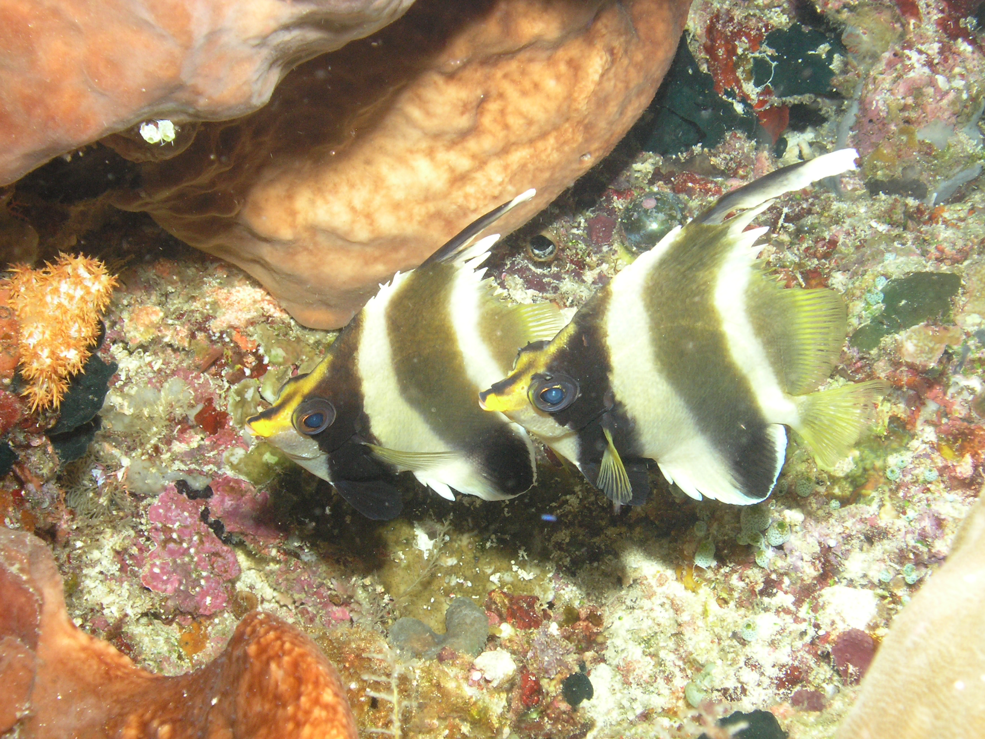 Threeband pennantfish (Heniochus chrysostomus) at Bunaken Marine Park, North Sulawesi